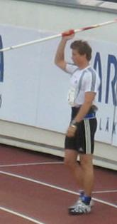 Cropped version of Image:Thorkildsen.jpg